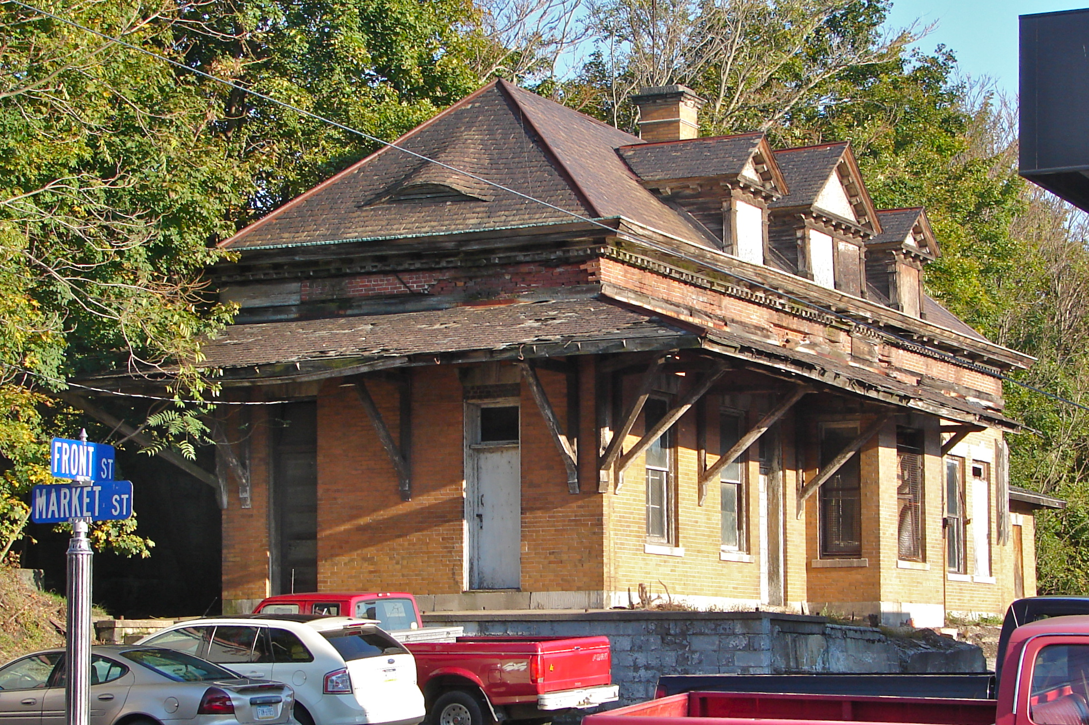 Former Pennsyvania Railroad Station in Newport, Pennsylvania (located between Penn Ave and the Juniata River). Part of the Newport Historic District on the NRHP since March 12, 1999. The HD is roughly bounded by Fickes Lane, Oliver Street, Front Street, Little Buffalo Run, Bloomfield Avenue, and Sixth Street in Newport and Oliver Township, Perry County, Pennsylvania